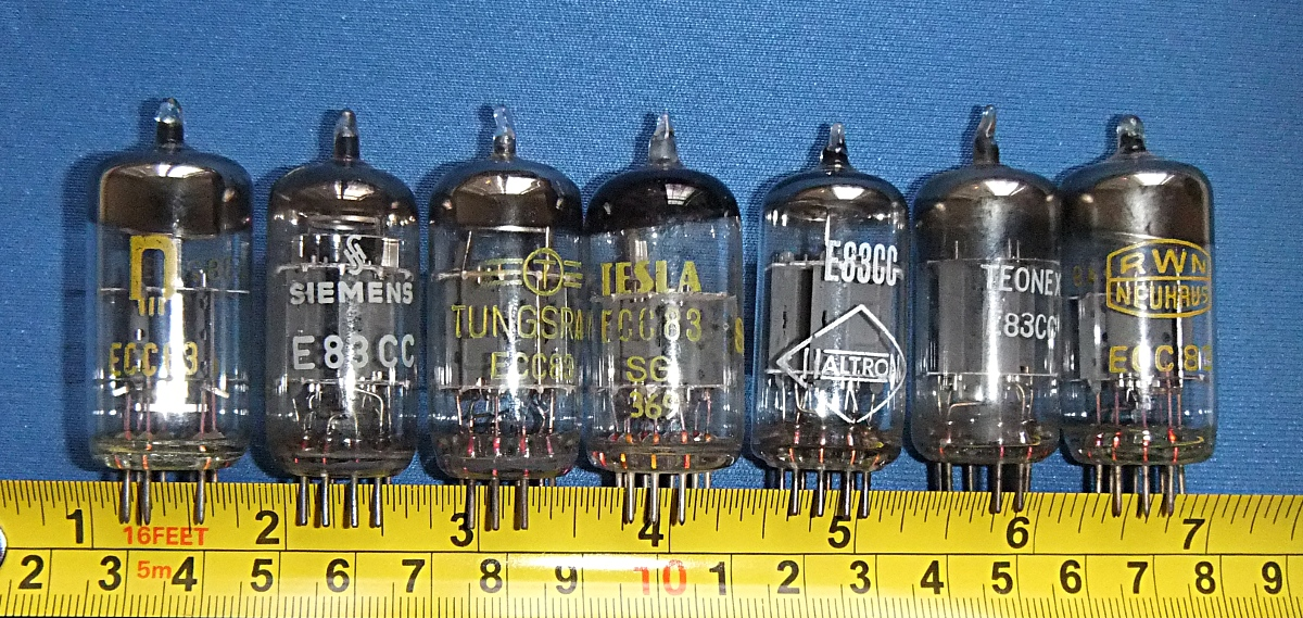 ECC83 and E83CC tubes of various European brands